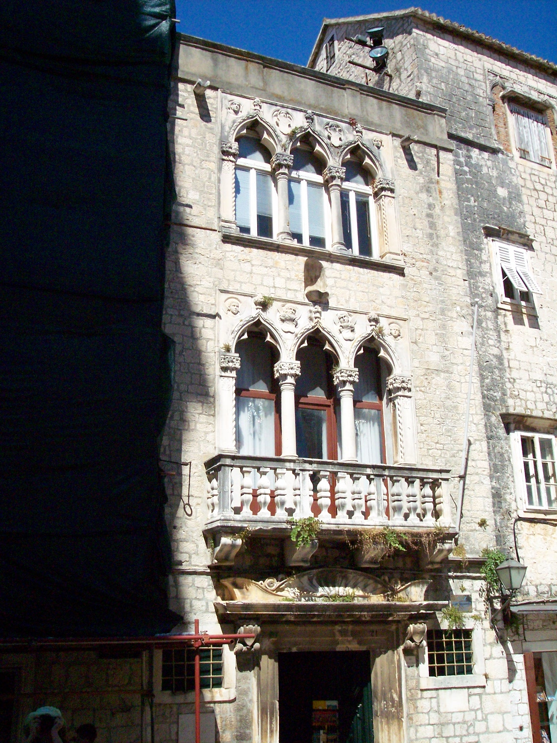 Trogir]